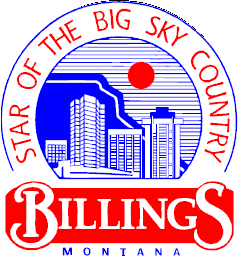 Official emblem of the city of Billings, Montana, United States of America.